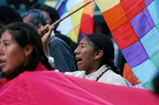 Protester with wiphala taking part in a demonstration supporting the Bolivian social movements. Buenos Aires (Argentine)